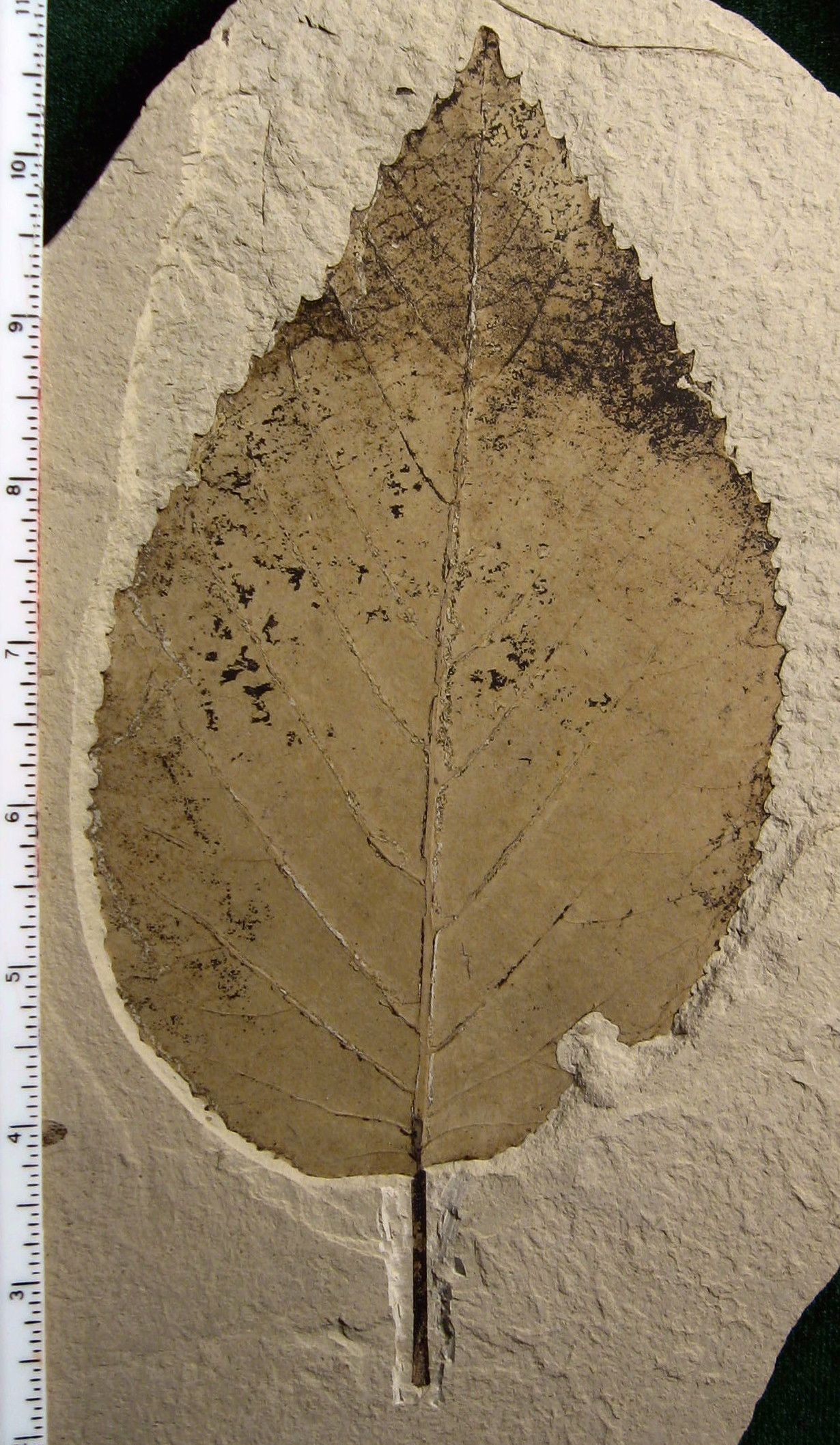 A 9inch tall Langeria magnifica leaf. Klondike Mountain Formation, Republic, Ferry County, Washington, USA, Eocene, Ypresian, 49 million years old. Stonerose Interpretive Center Collection #